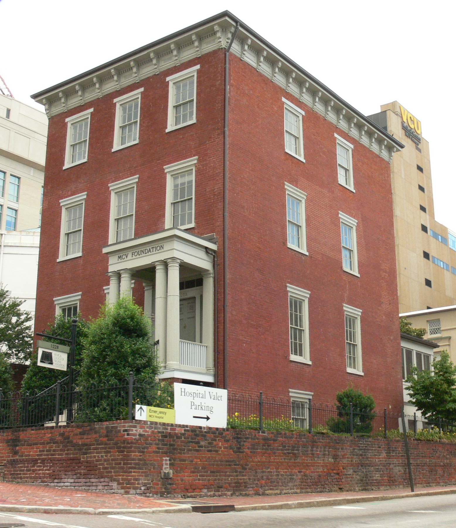 William Beers House, in Richmond, Virginia. The 19th century townhouse, adjacent to Monumental Church, is on the National Register of Historic Places.